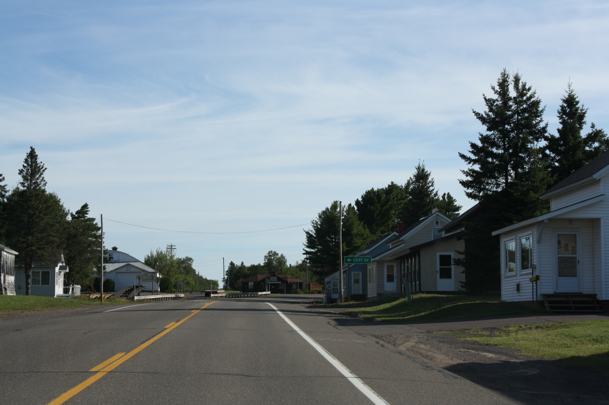 Downtown Ahmeek, Michigan on U.S. Route 41.